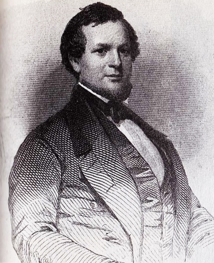 Engraving of George Rex Graham (d. 1894), founder of Graham's Magazine in Philadelphia